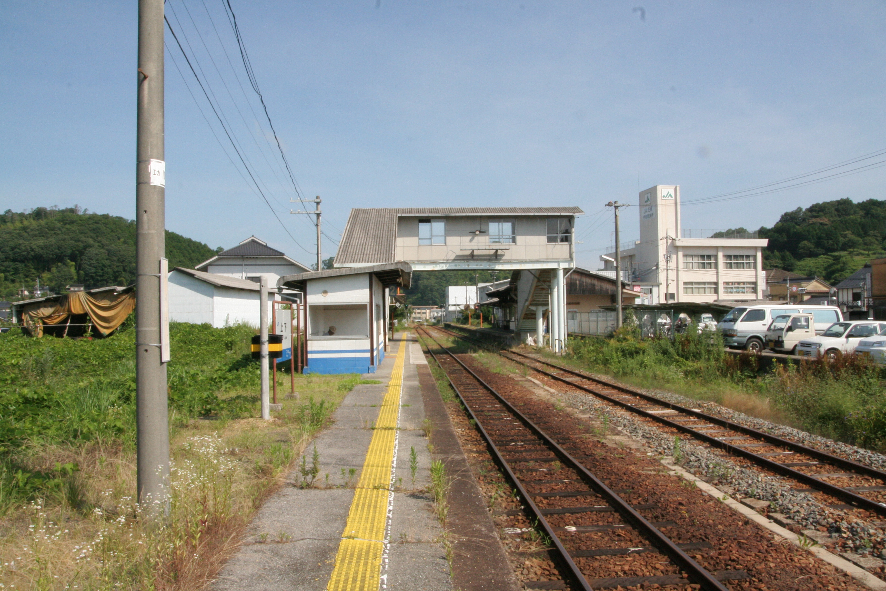 West Japan Railway Fukuen Line Joge Station enclosure